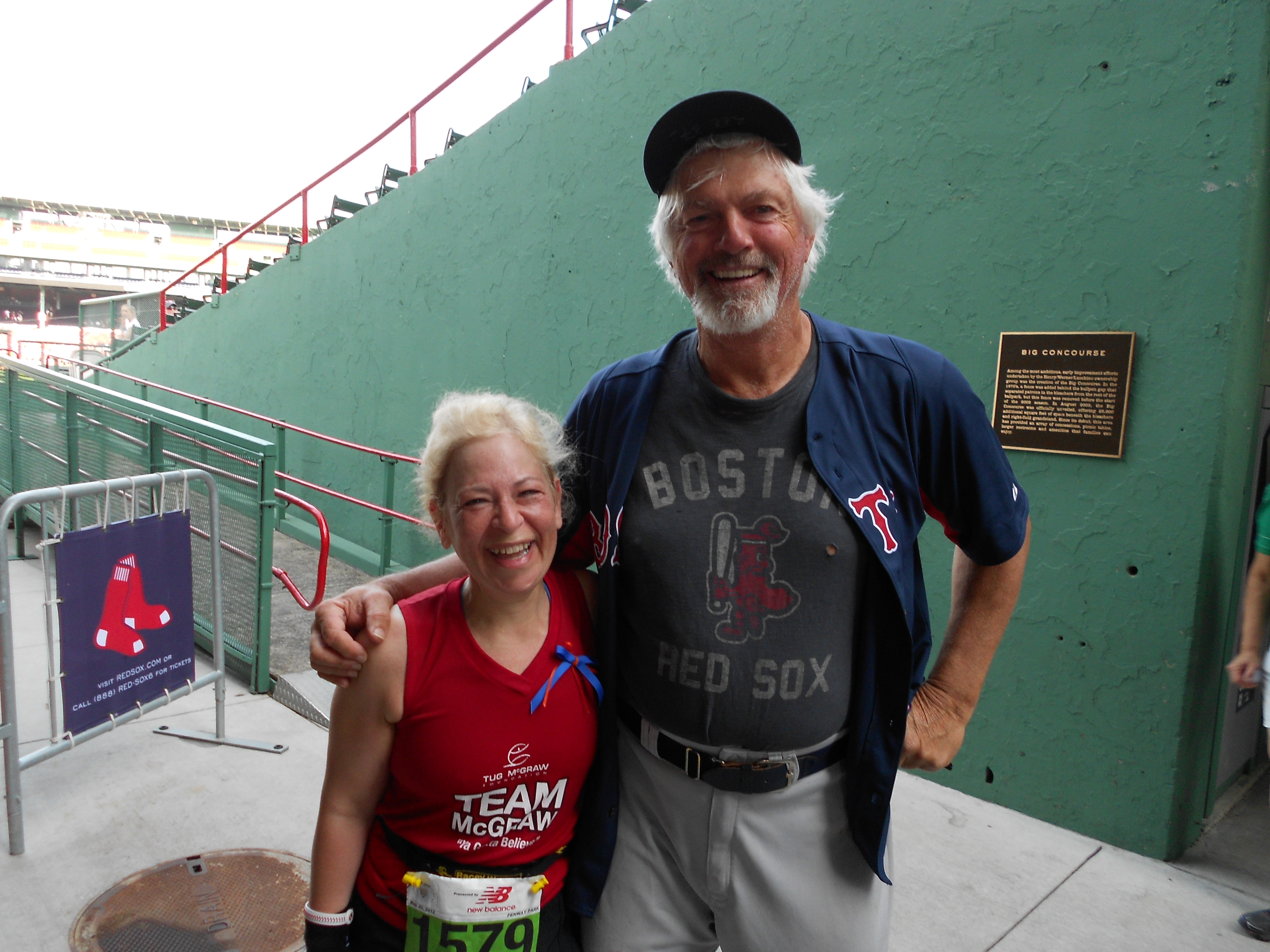 Bill "Spaceman" Lee with a 2012 Boston Marathon runner at Fenway Park